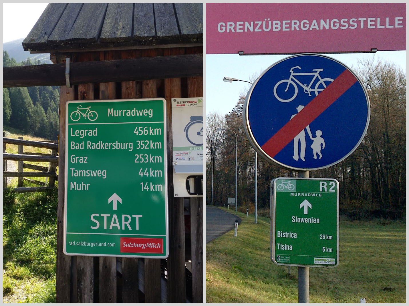 Linkes Bild: Beginn des Murradweges bei der Sticklerhütte, Salzburg Lungau Rechtes Bild: Letzer Murradweg-Wegweiser in der Steiermark, Grenzübergang Sicheldorf